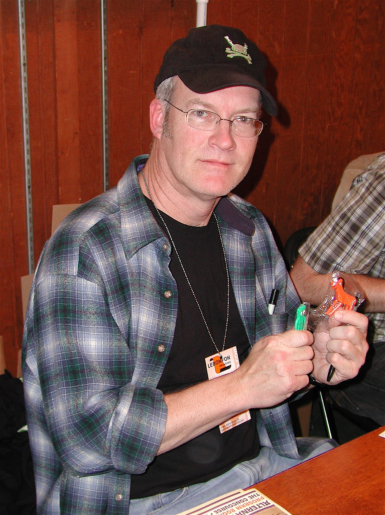 Steve Purcell at the Alternative Press Expo in 2007